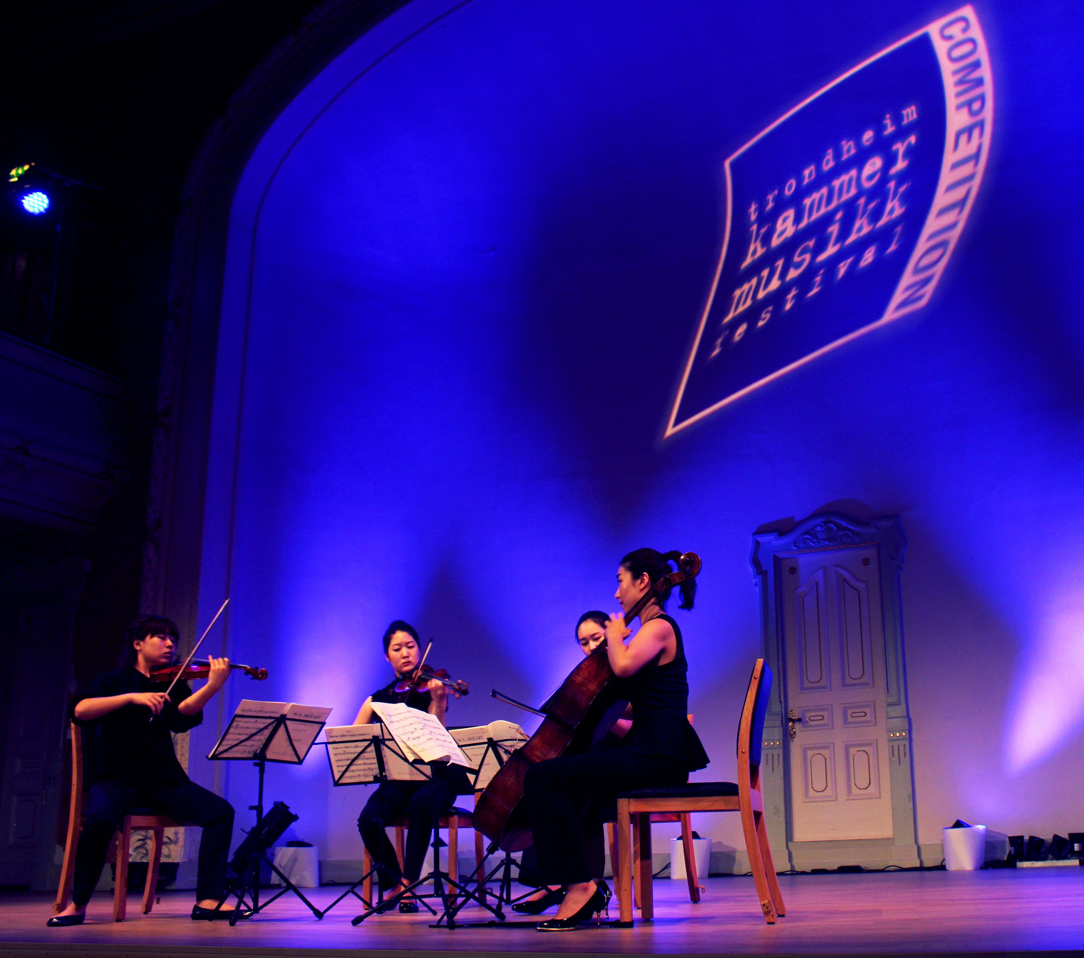 Yul String Quartet (South Korea) playing in the competition TICC 2013, Trondheim Chamber Music Festival (Kamfest) 2013